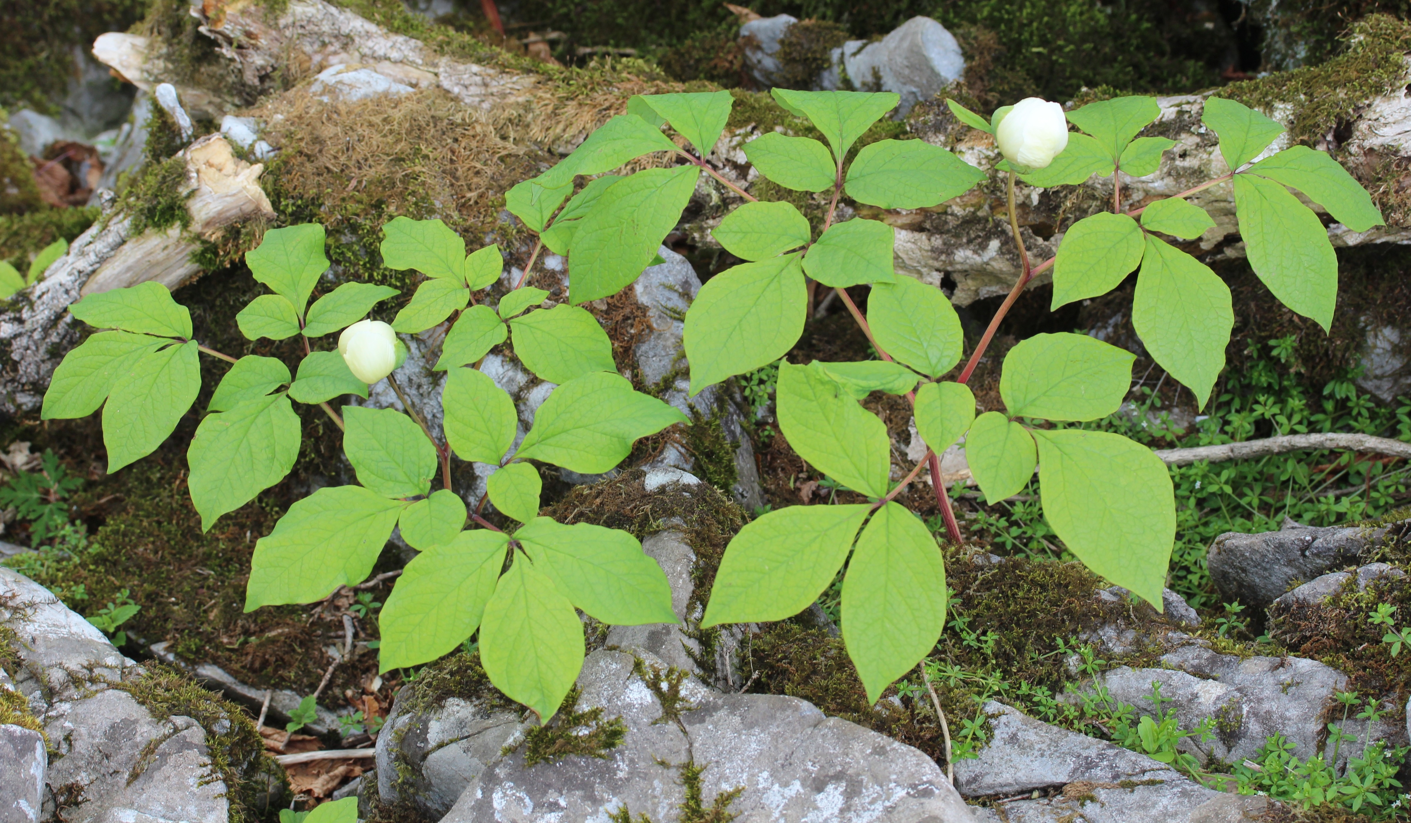 Paeonia japonica ,bud in Mount Ryozen of Suzuka Mountains, Japan.